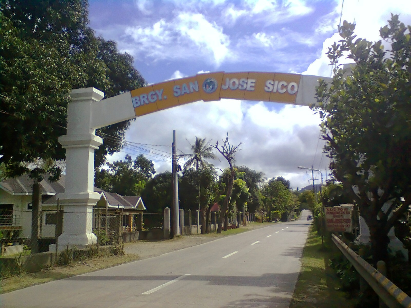 An entrance to Barangay San Jose Sico, Batangas City.Tagalog: Isang entrada sa Barangay San Jose Sico, Lungsod ng Batangas.